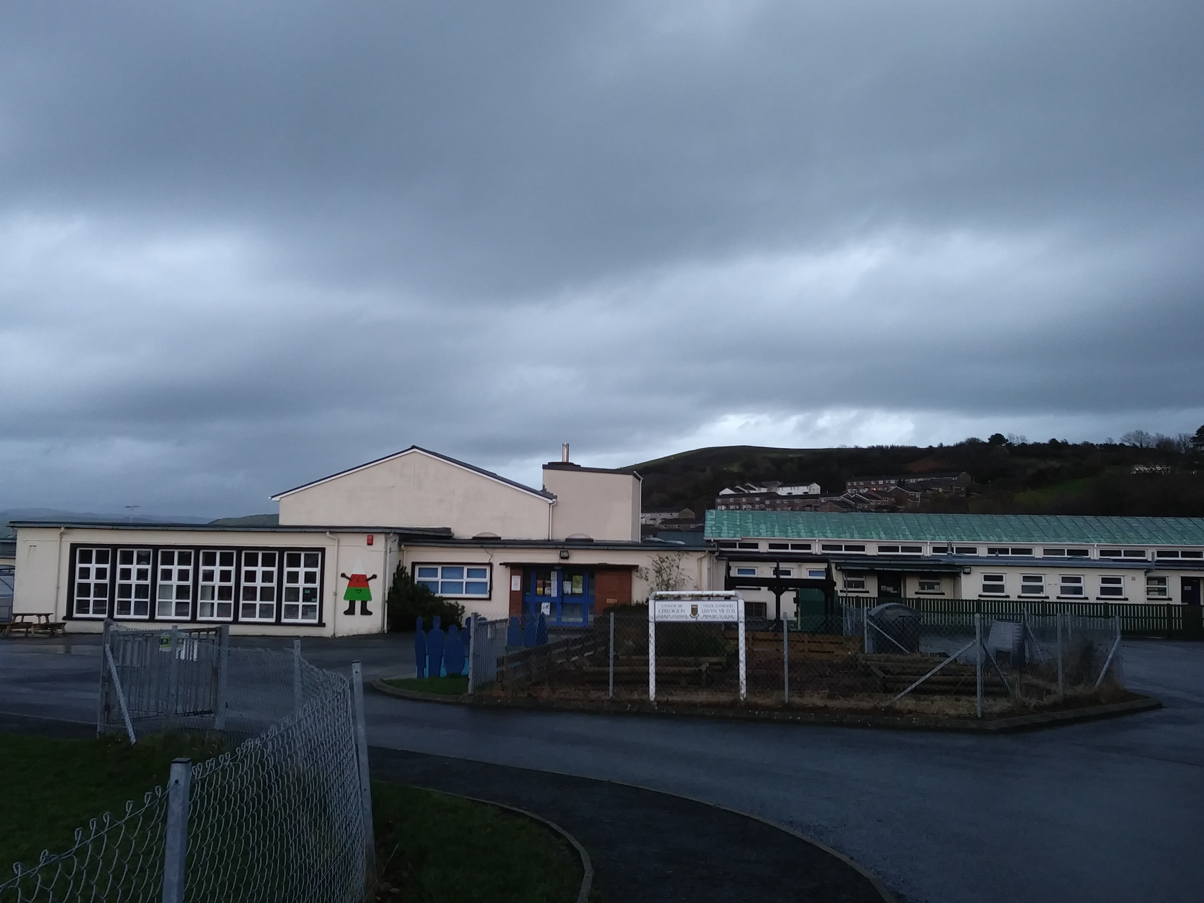 Ysgol Llwyn-yr-Eos, Penparcau, Aberystwyth